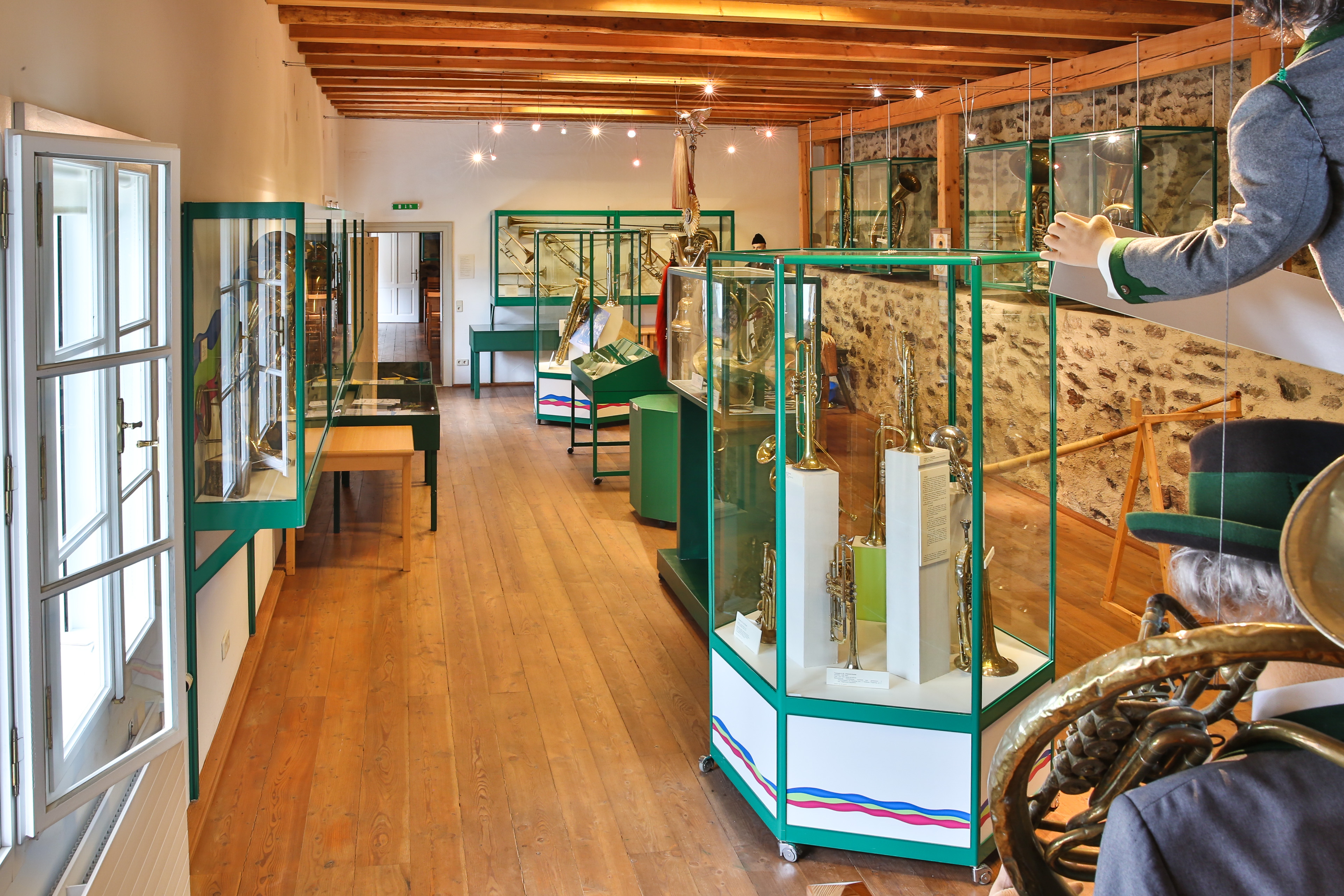 Austrian Brass Music Museum in Oberwölz / Styria / Austria / EU. Room with trumpets.